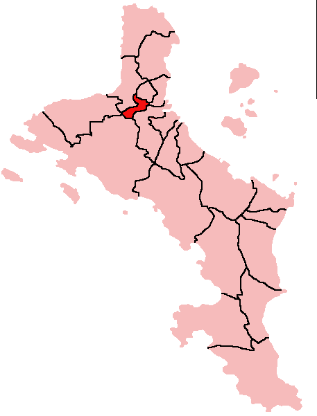 Map of Mahe Island, Seychelles showing Saint Louis District; created with the GIMP. Made by User:Acntx.